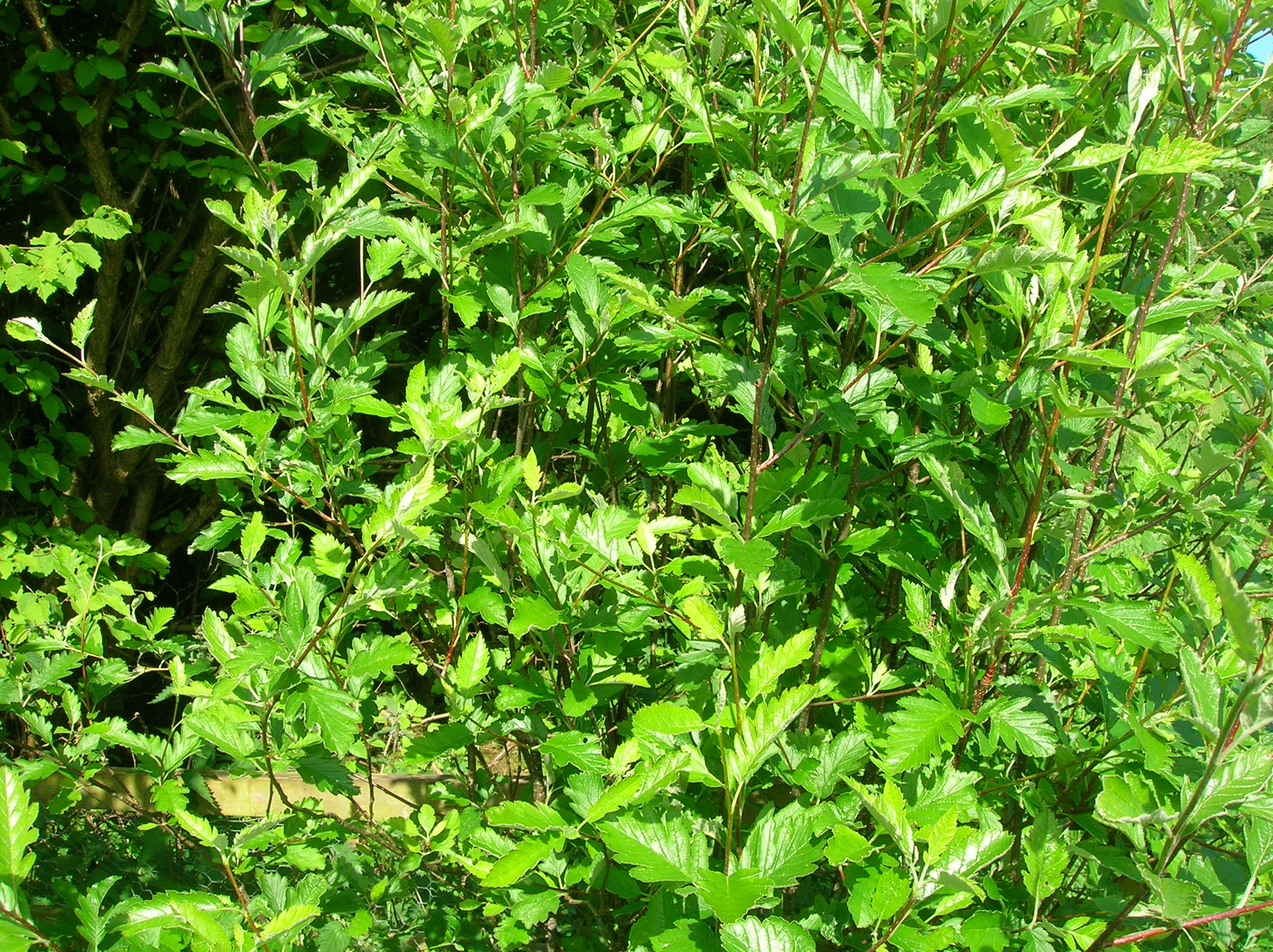 Sorbus pseudofennica at Eglinton Country Park, Irvine, Scotland.